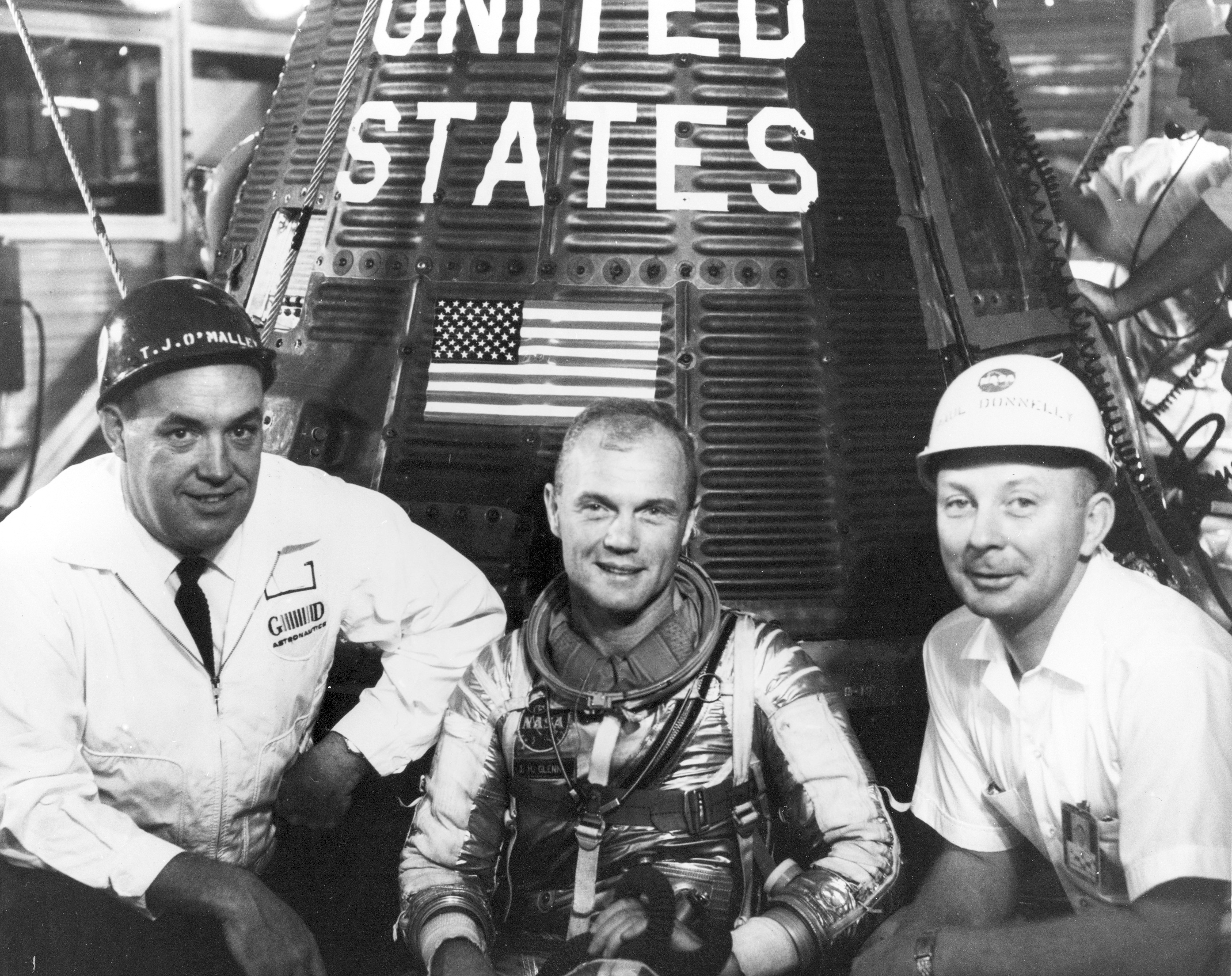 Grouped together with astronaut John H. Glenn, Jr., beside Friendship 7 spacecraft are left to right: T.J. O'Malley, chief test conductor for General Dynamics; Glenn; and Paul C. Donnelly.